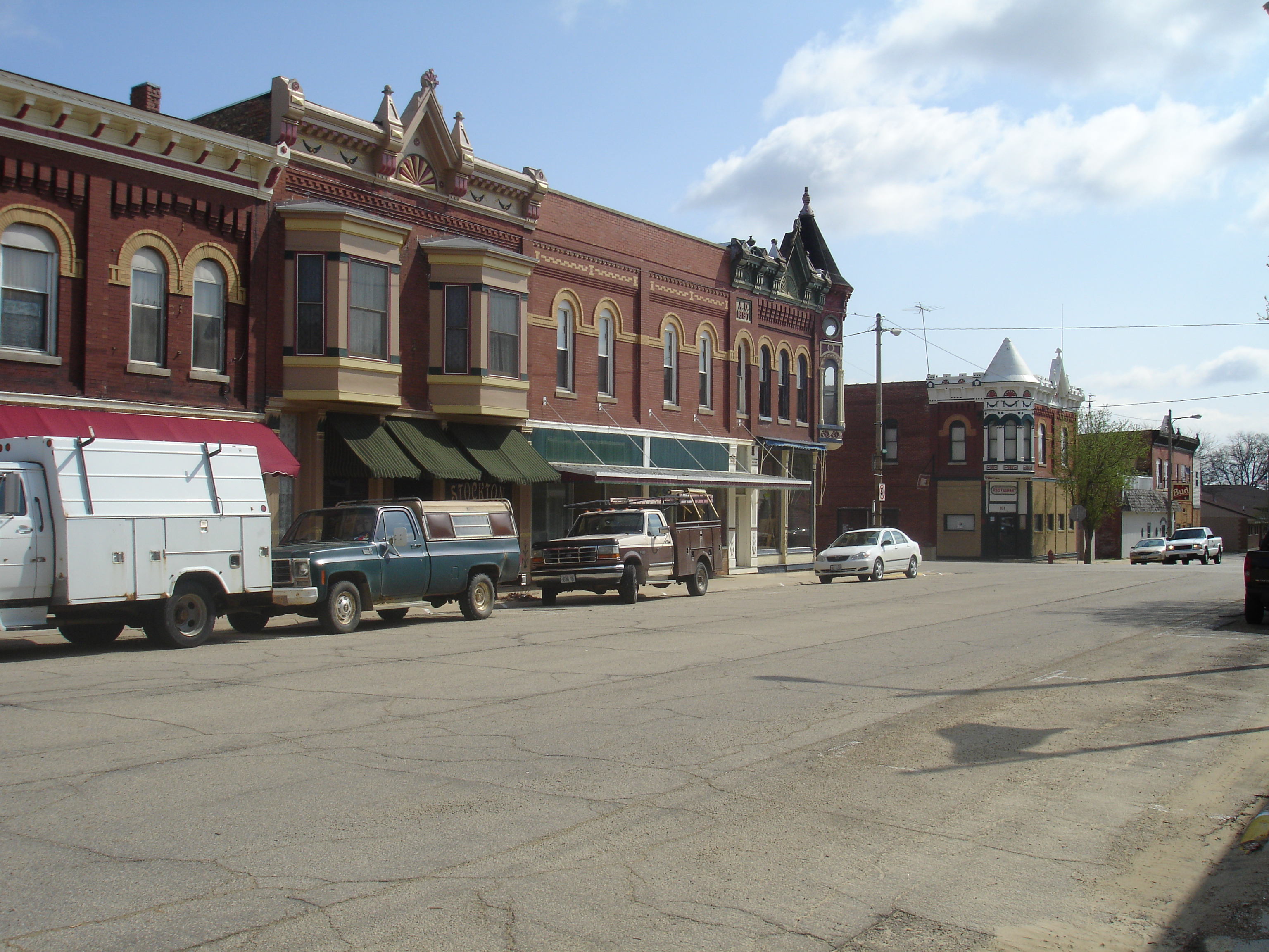 W.E. White Building (near corner) and downtown Stockton, Illinois, White Building listed on U.S. National Register of Historic Places